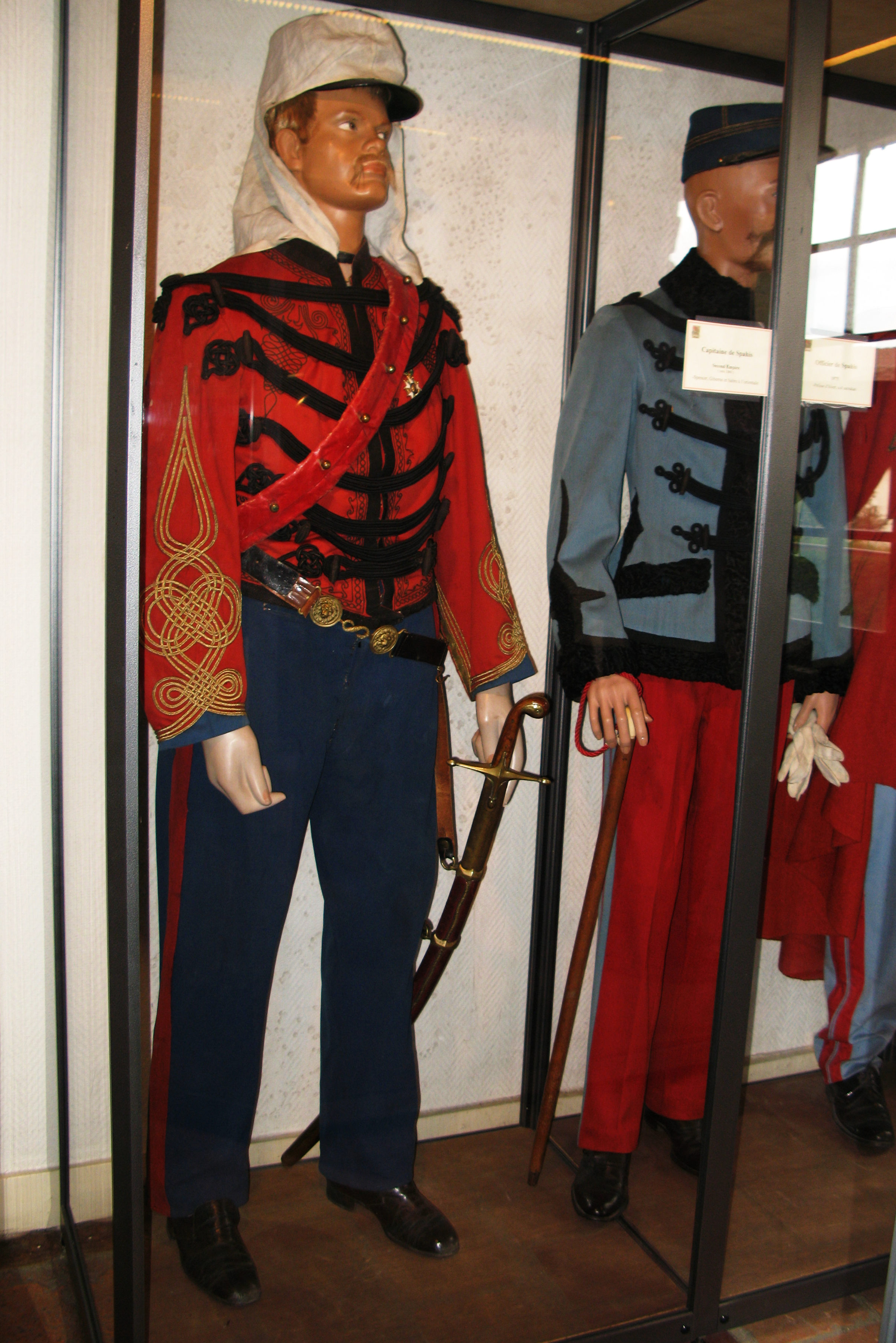 Second Empire spahi uniformMusée des Spahis, Senlis